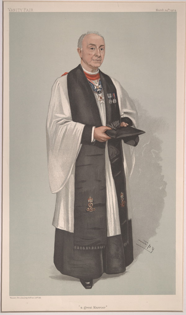 Men of the Day No. 911: Caricature of The Rev Edgar Sheppard DD CVO. Caption read "a great Marrier".